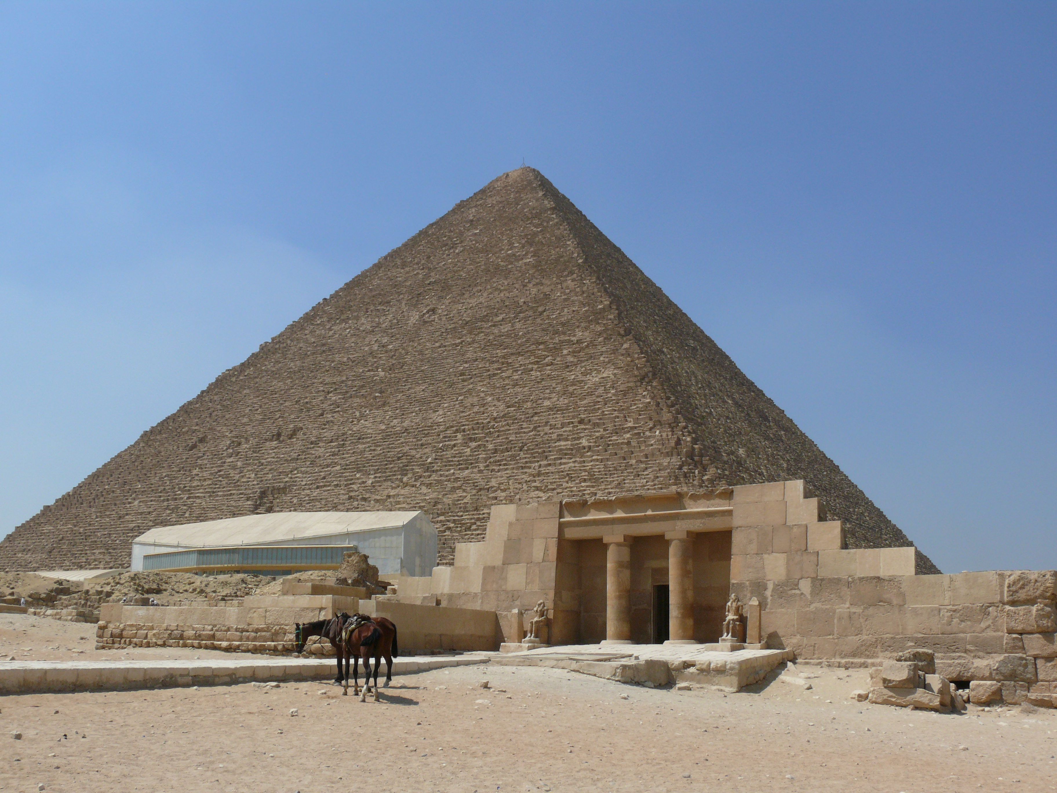 The Great Pyramid of Giza, also known as the Pyramid of Cheops or Khufu.